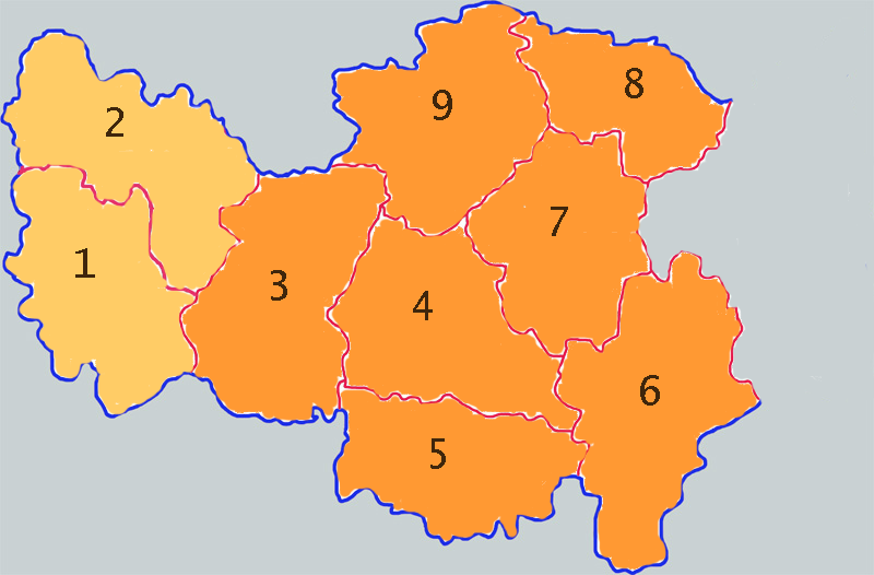 Municipalities of Xinyang city, China